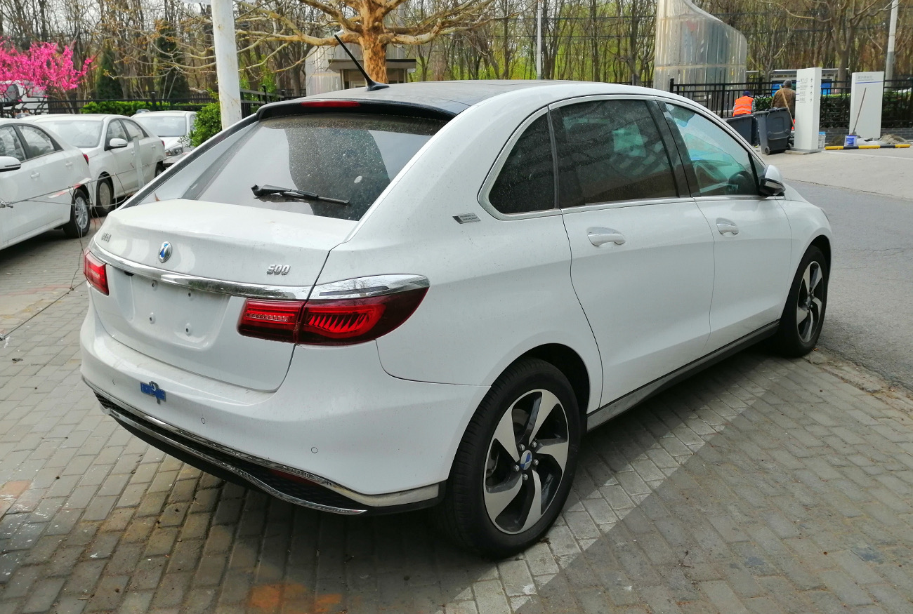 Denza 500 photographed in Beijing, China.